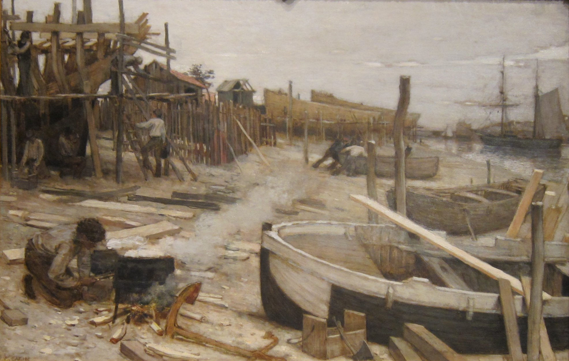 The Boatyard, oil painting by Jean-Charles Cazin, c. 1875, Cleveland Museum of Art